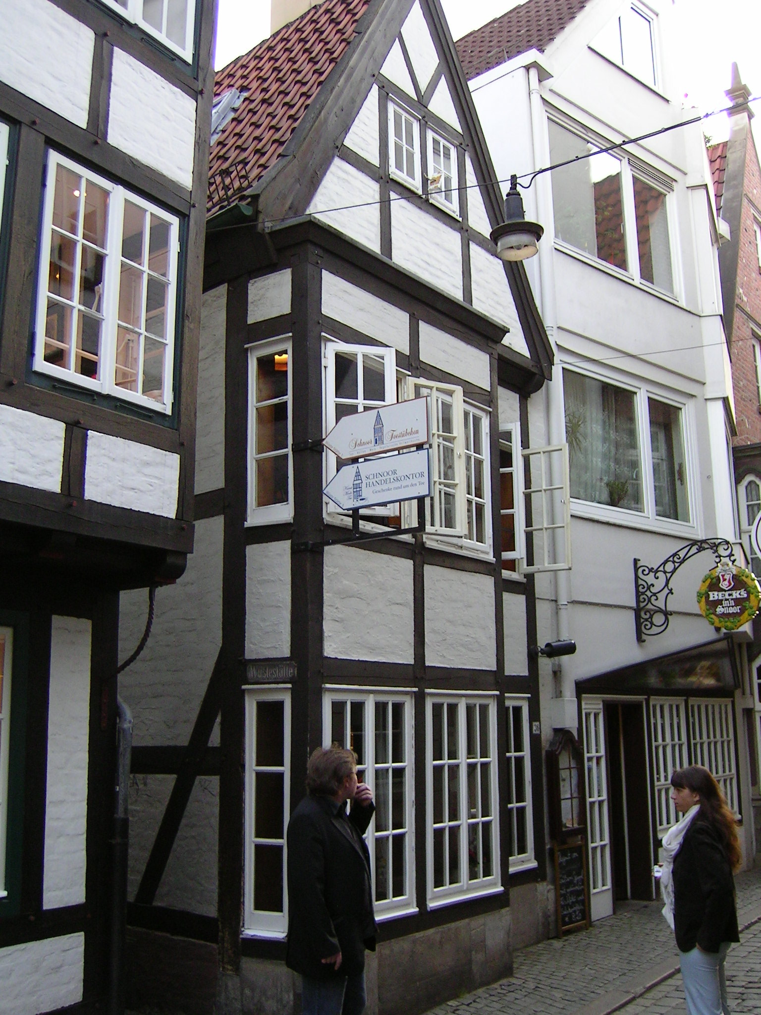 Houses from the 15th and 16th centuries along the narrow alleys in Bremen’s oldest surviving quarter